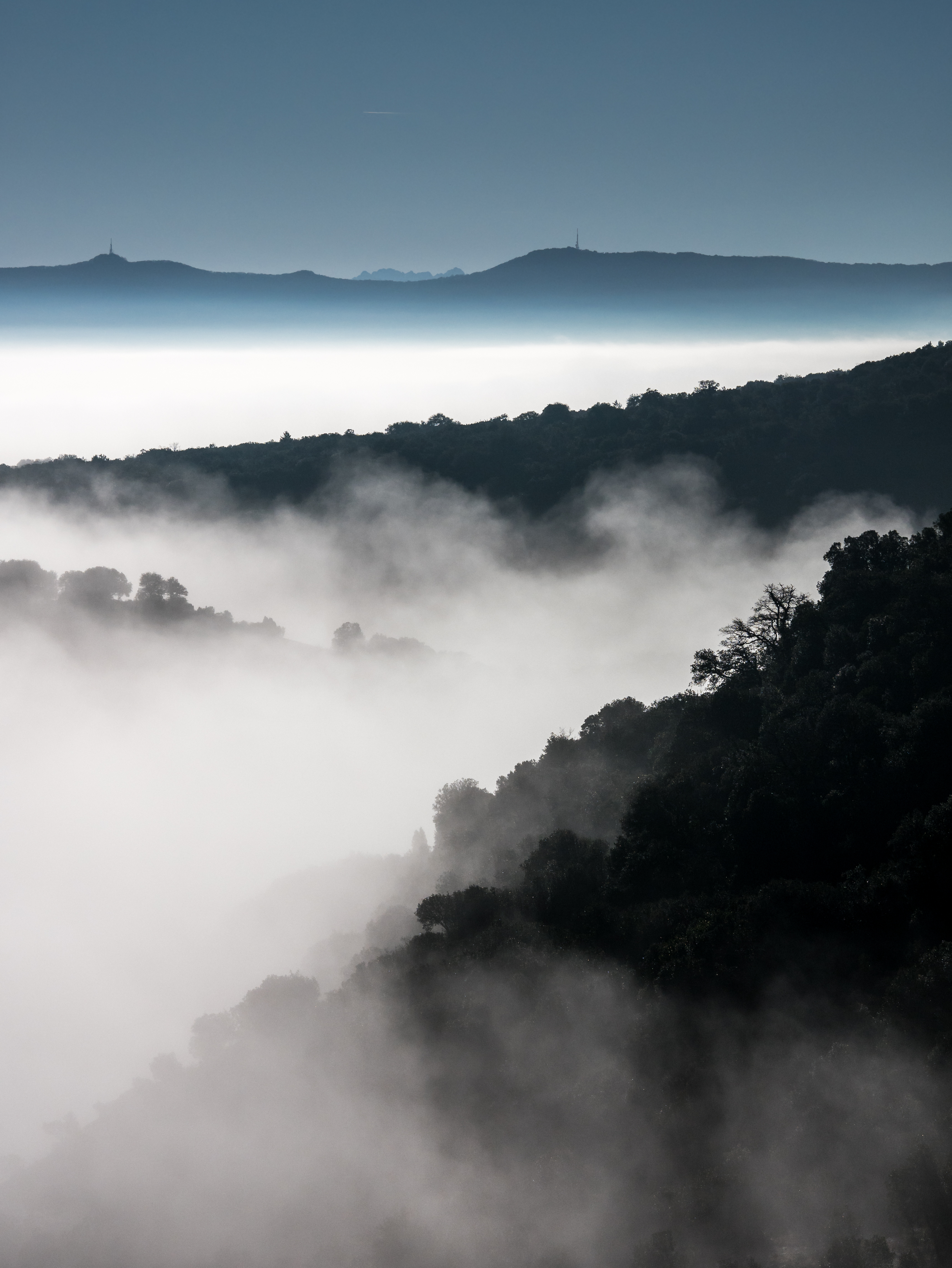 View of the Badaia mountain range in the fog, in the background the Vitoria mountain range. Álava, Basque Country, Spain